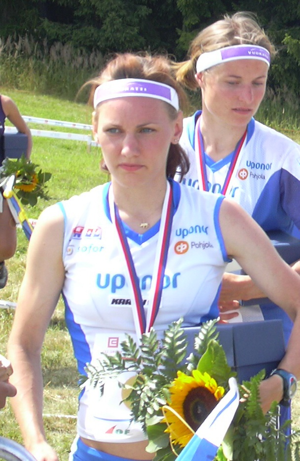 World Orienteering Championships 2008 in Olomouc, Czech Republic. On photo Katri Lindeqvist.